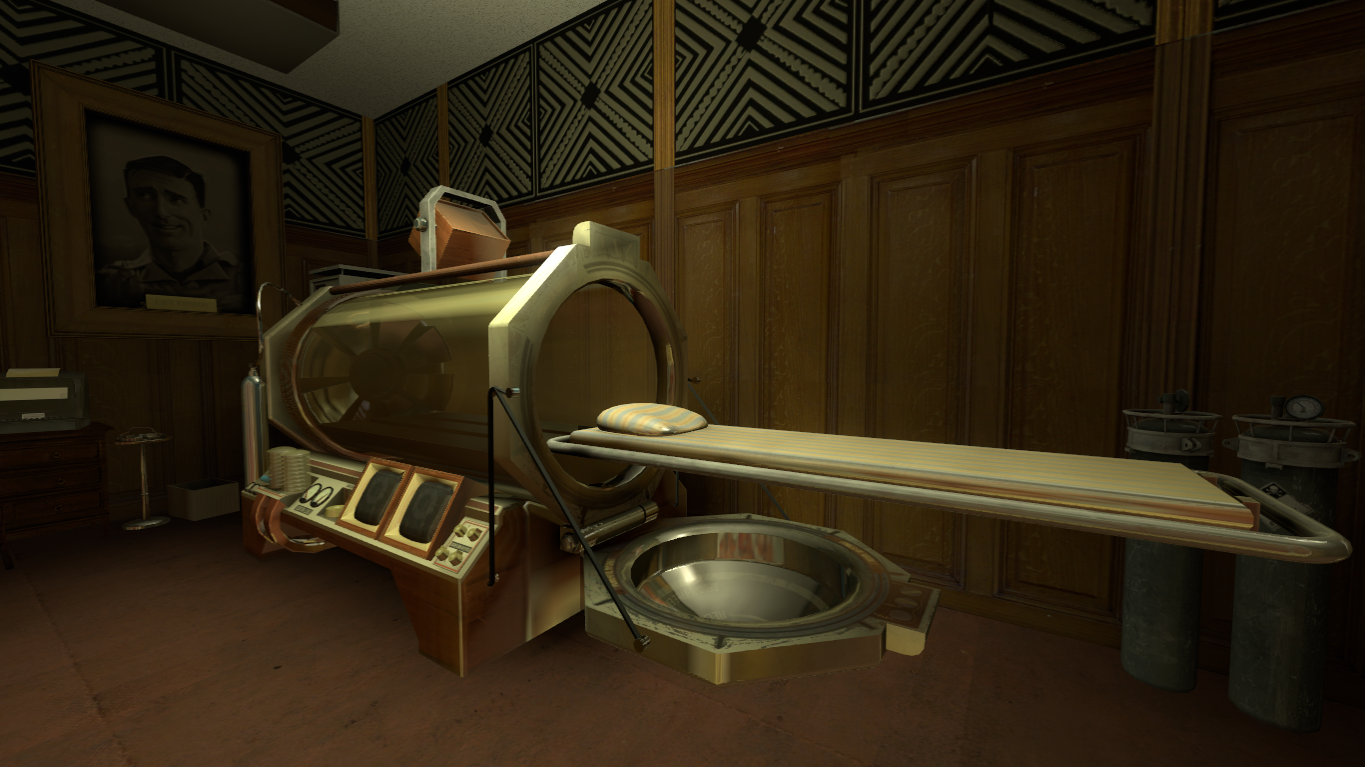 The Aperture Science Innovators Short-Term Relaxation Vault in which Mel sleeps for several decades. Screenshot of the game Portal Stories: Mel. Authorized upload after making a request to Prism Studios Ltd.